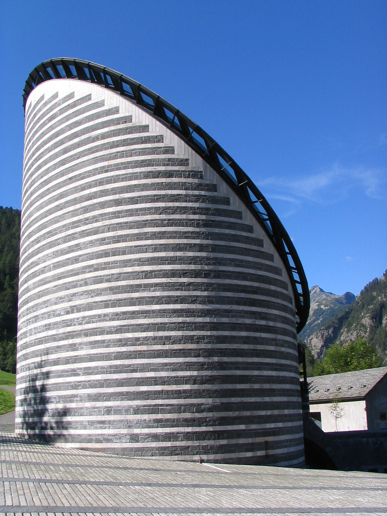 This church is in a tiny village (no where to eat breakfast) reached after about 30 hairpin turns up the mountain.